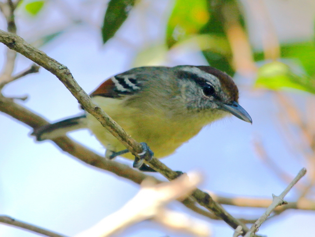 Rufous-winged Antwren (Female) at Bertioga - SP - Brazil